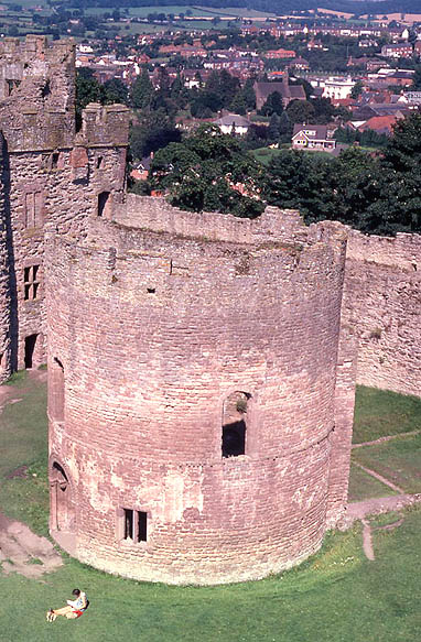 Ludlow Castle, the chapel from the keep